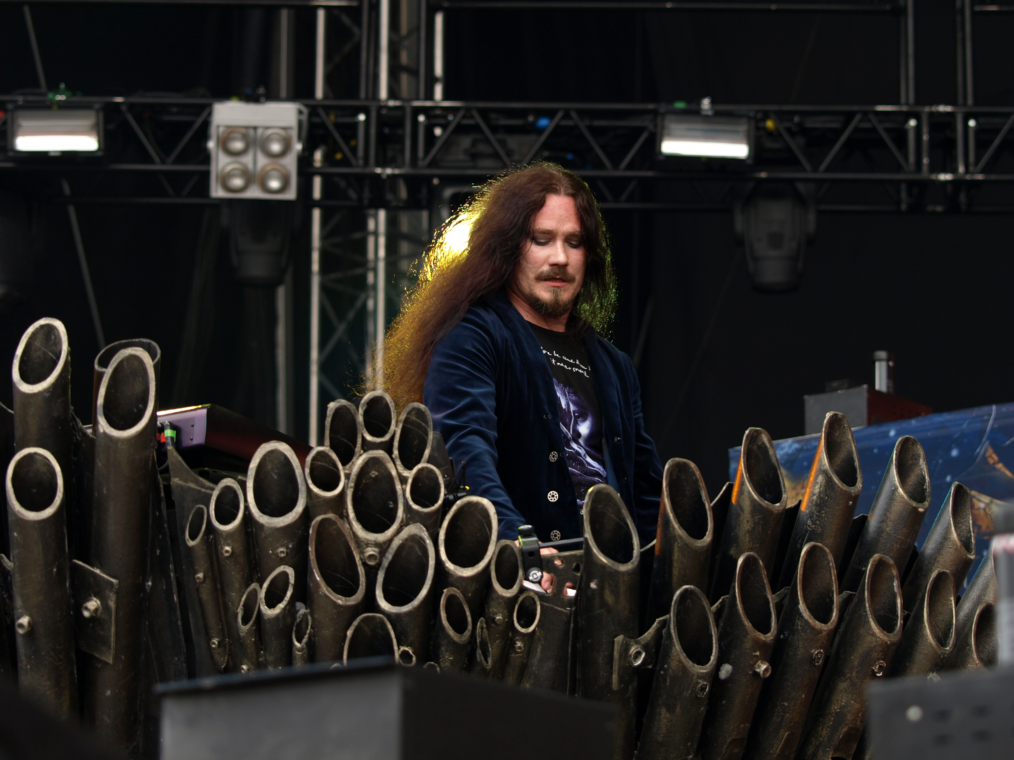 Finnish band Nightwish at Tuska Open Air 2013